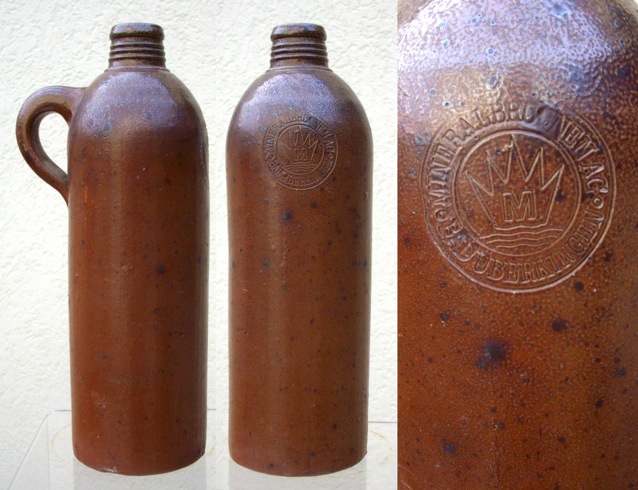 Stoneware bottle "Überkinger", Germany, early 20th century.